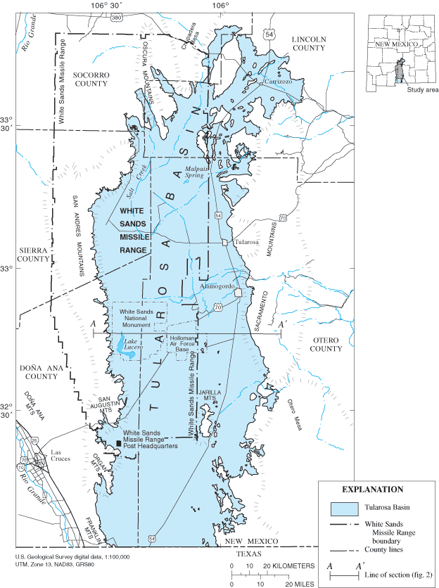 Location map of Tularosa Basin 2004. Huff, Glenn F. (2005) "Simulation of Ground-Water Flow in the Basin-Fill Aquifer of the Tularosa Basin, South-Central New Mexico, Predevelopment through 2040" Scientific Investigations Report 2004-5197, United States Geological Survey, Washongton, D.C., fig. 1.